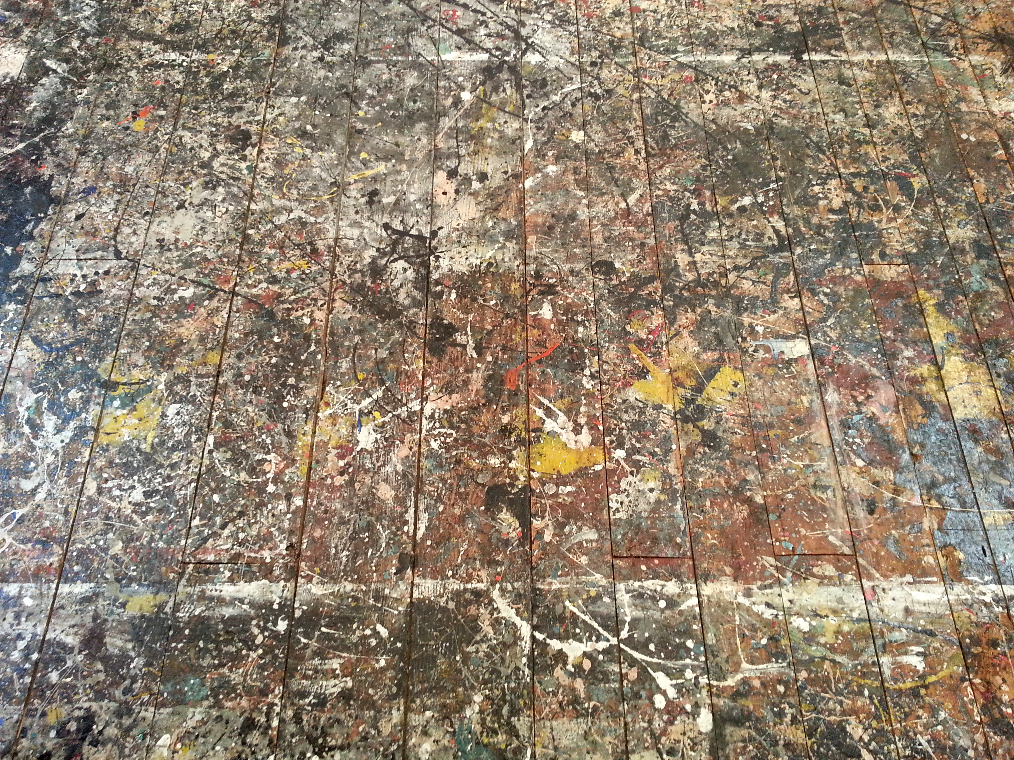 Studio floor used by Jackson Pollock at the Pollock-Krasner House and Study Center in Springs, New York. The studio is in an old barn behind the house. Pollock had the building moved, put a wood floor down and used it as his primary painting surface from 1946 until his death in 1956. When he renovated in 1953, he put down a masonite covering. Krasner started to use the room in 1957. Upon her death in 1984, ownership was transferred to Stony Brook University, who removed the covering, discovered the old surface, and had it restored in 1987-8.